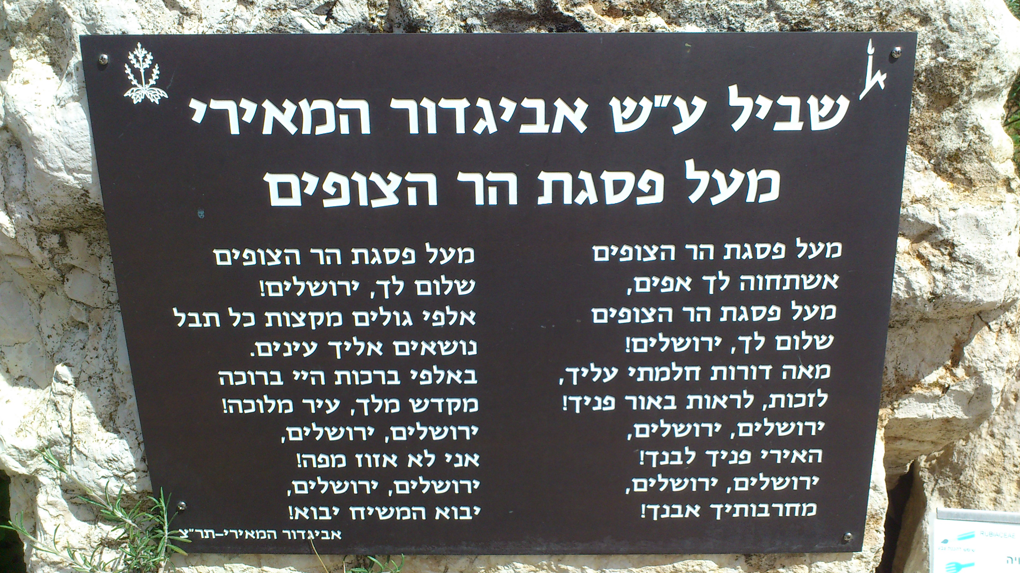 Botanical Garden on Mount Scopus